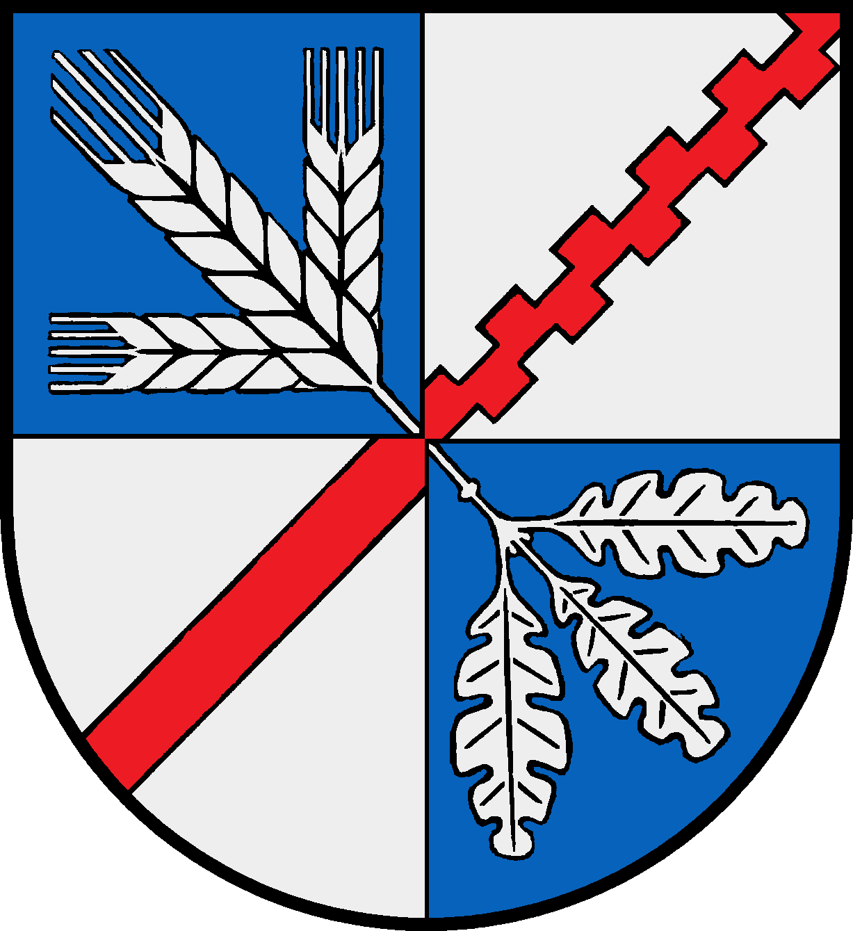 Coat of arms of the municipality Wankendorf in Schleswig-Holstein, Germany.